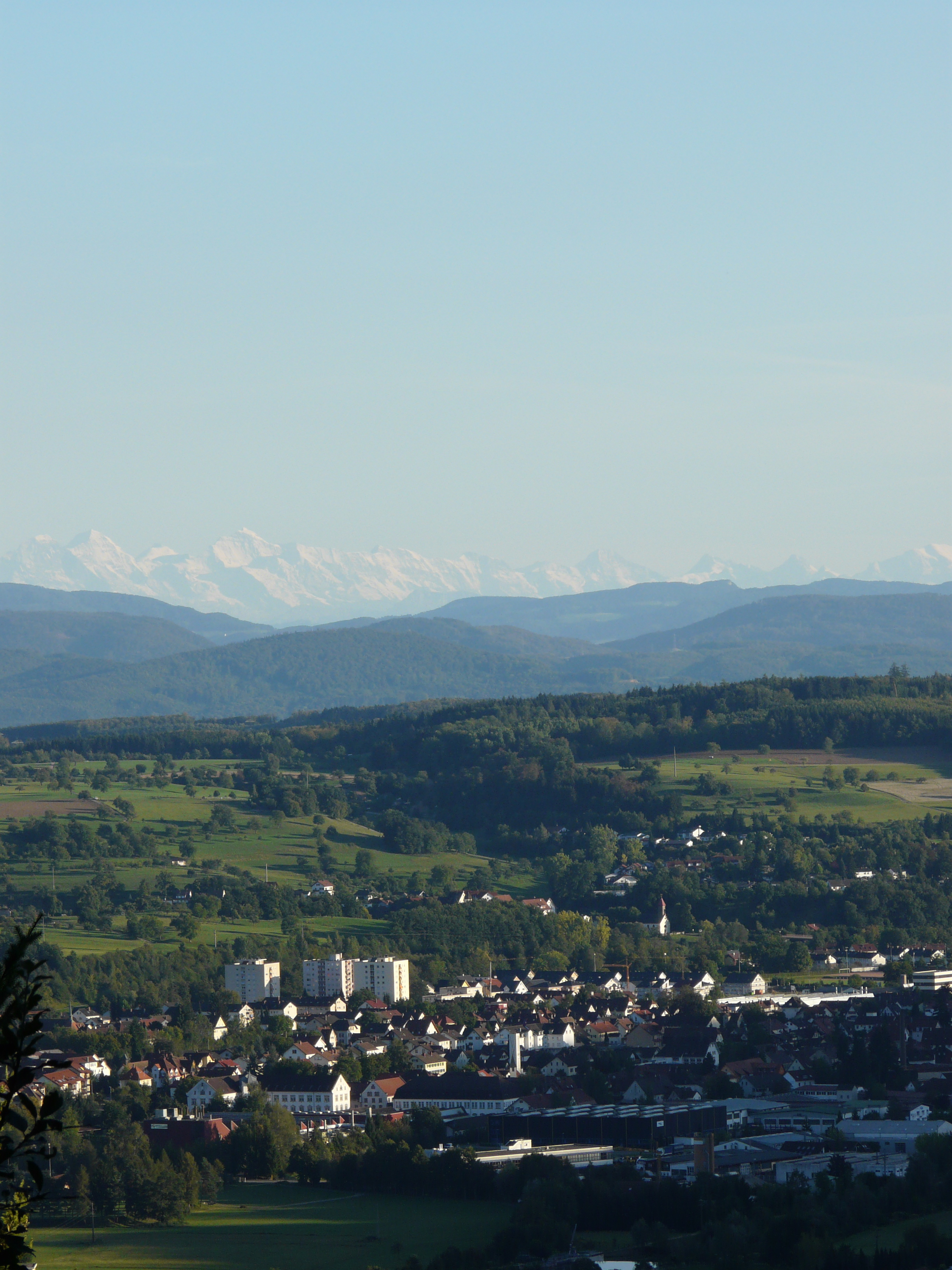 Schopfheim on a fair day, Alps visible in the background